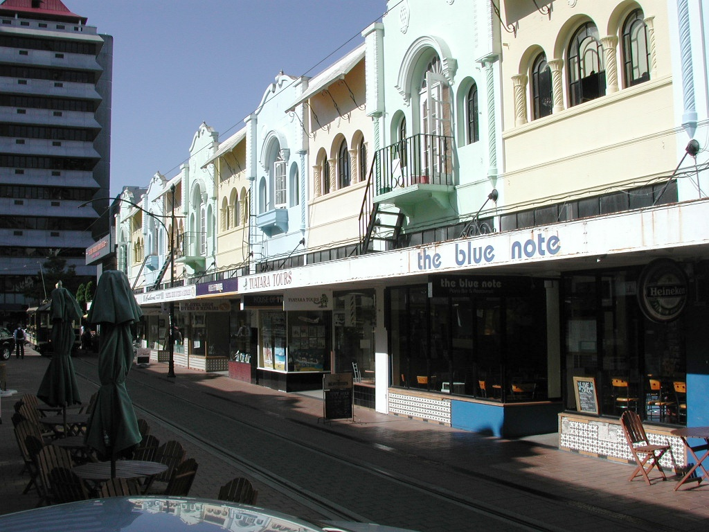 Spanish Mission style facades in New Regent Street, Christchurch.